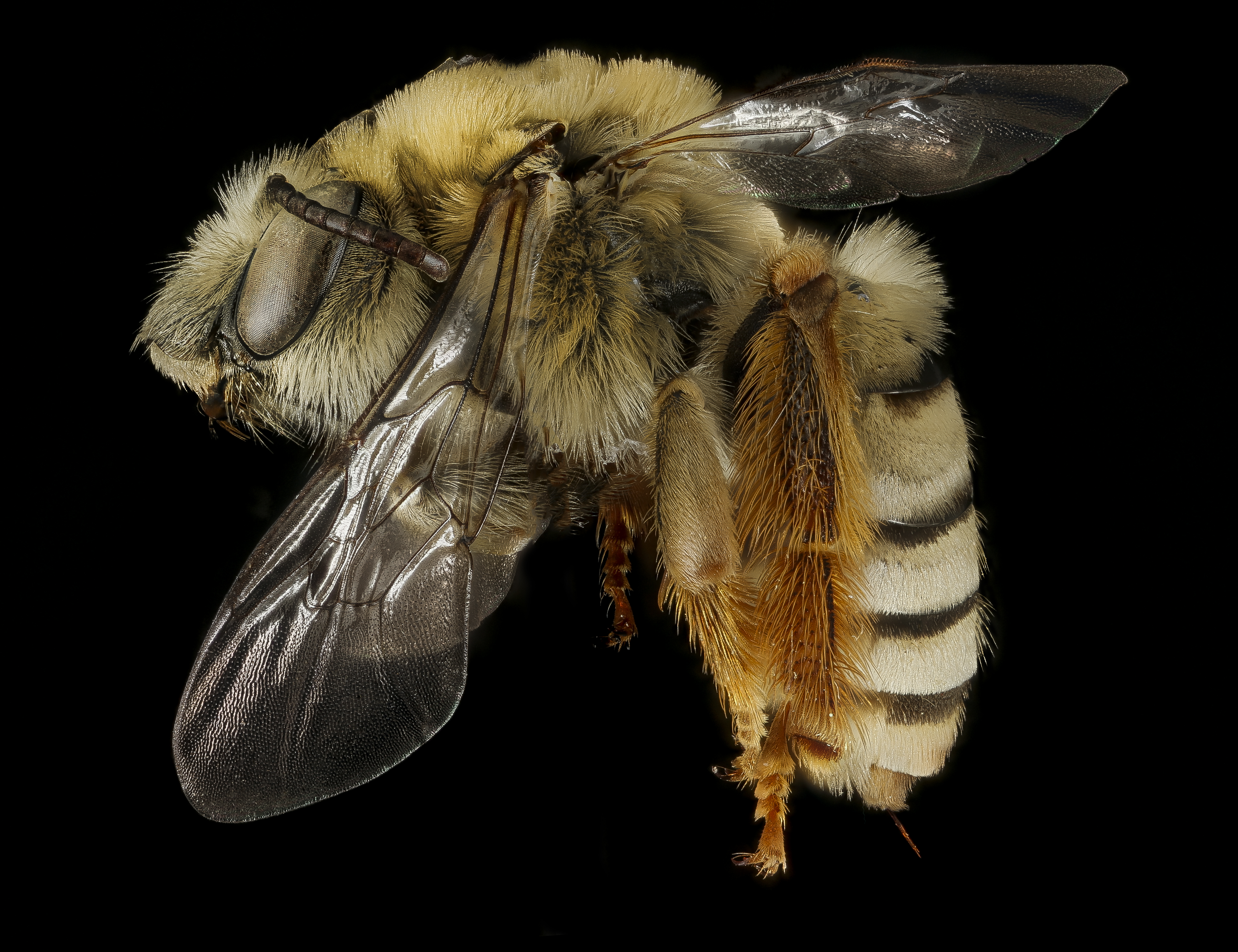 A beautiful spring Eucera from Badlands National Park in South Dakota. Eucera are almost always buff bees. Photograph by Dejen Mengis.